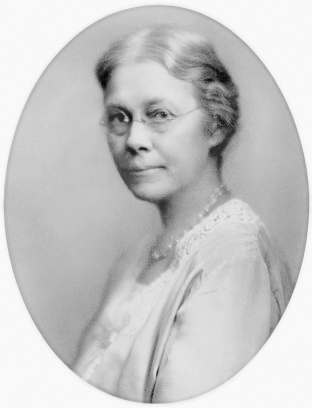 Die Physikerin und Pädagogin Margaret Eliza Maltby (1860-1944) war die erste amerikanische Frau, die an der Universität Göttingen (1895) einen Abschluss machte. Sie wurde Professorin für Physik und hielt den Lehrstuhl am Barnard College zwischen 1903 und 1934. 1926 wurde von der American Association of University Women die Margaret E. Maltby Fellowship als Stipendienprogramm für studierende Frauen eingerichtet.